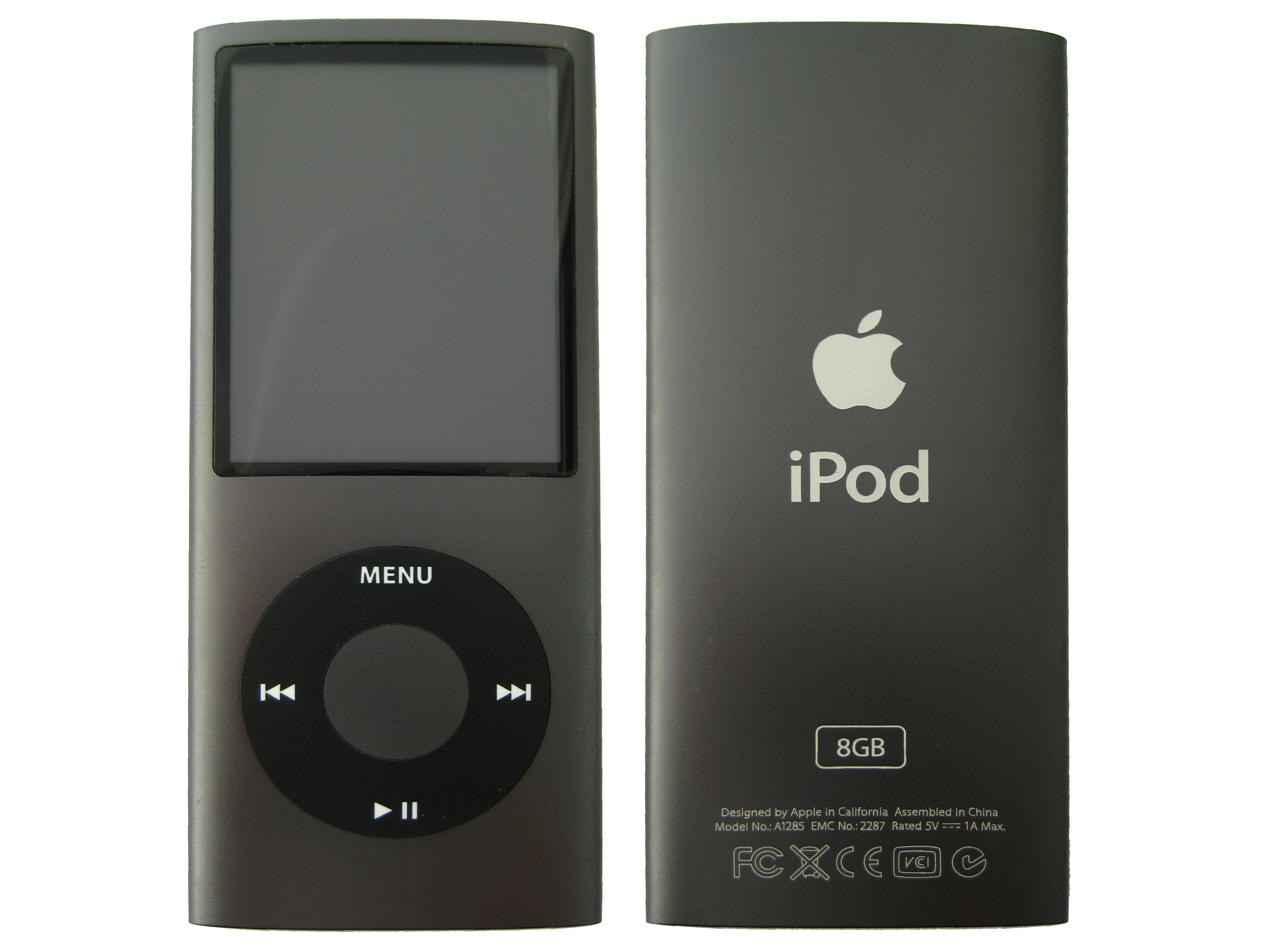 iPod nano (4th generation)